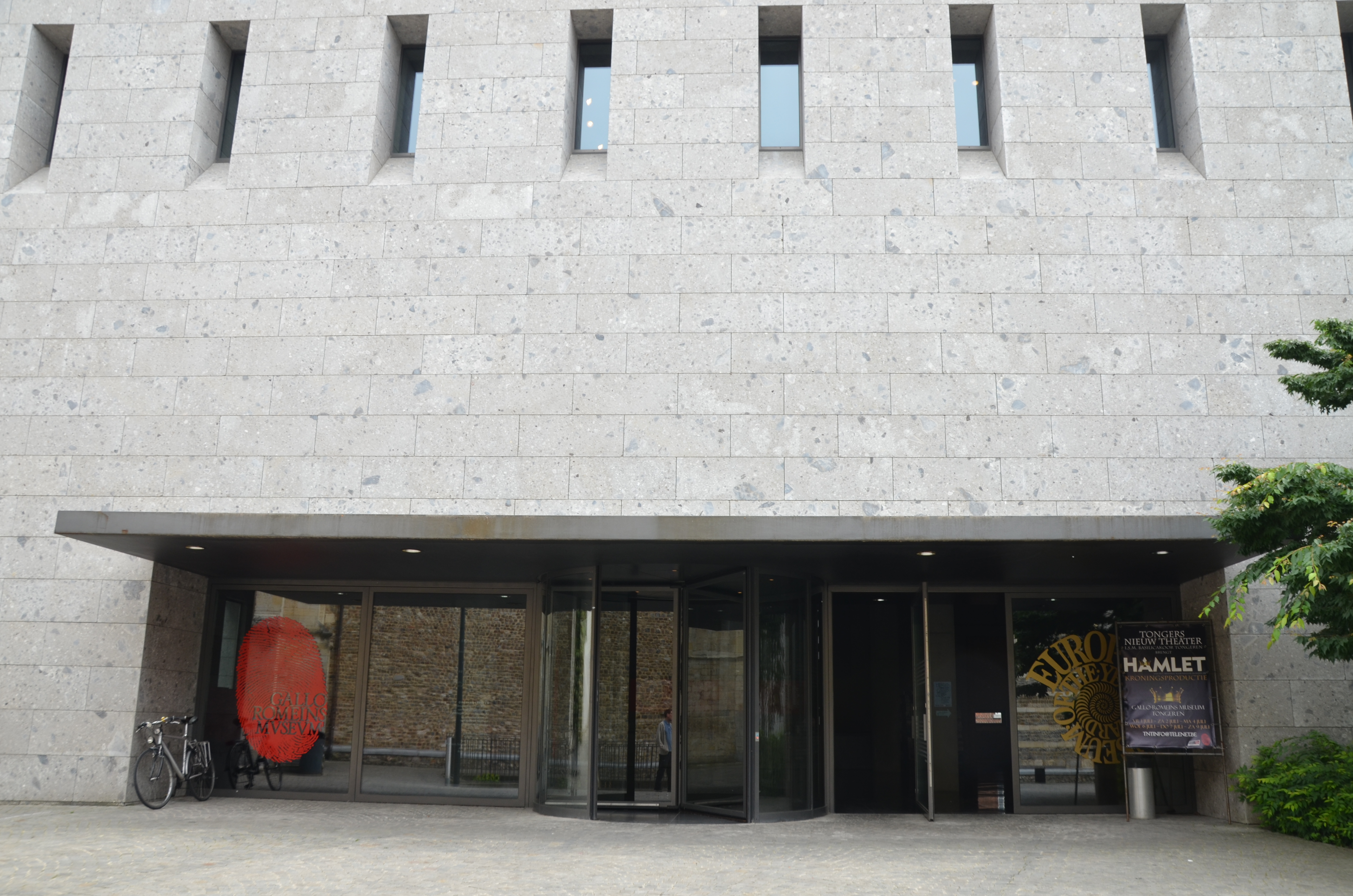 Main entrance of Gallo-Romeins Museum of Tongeren, Belgium.